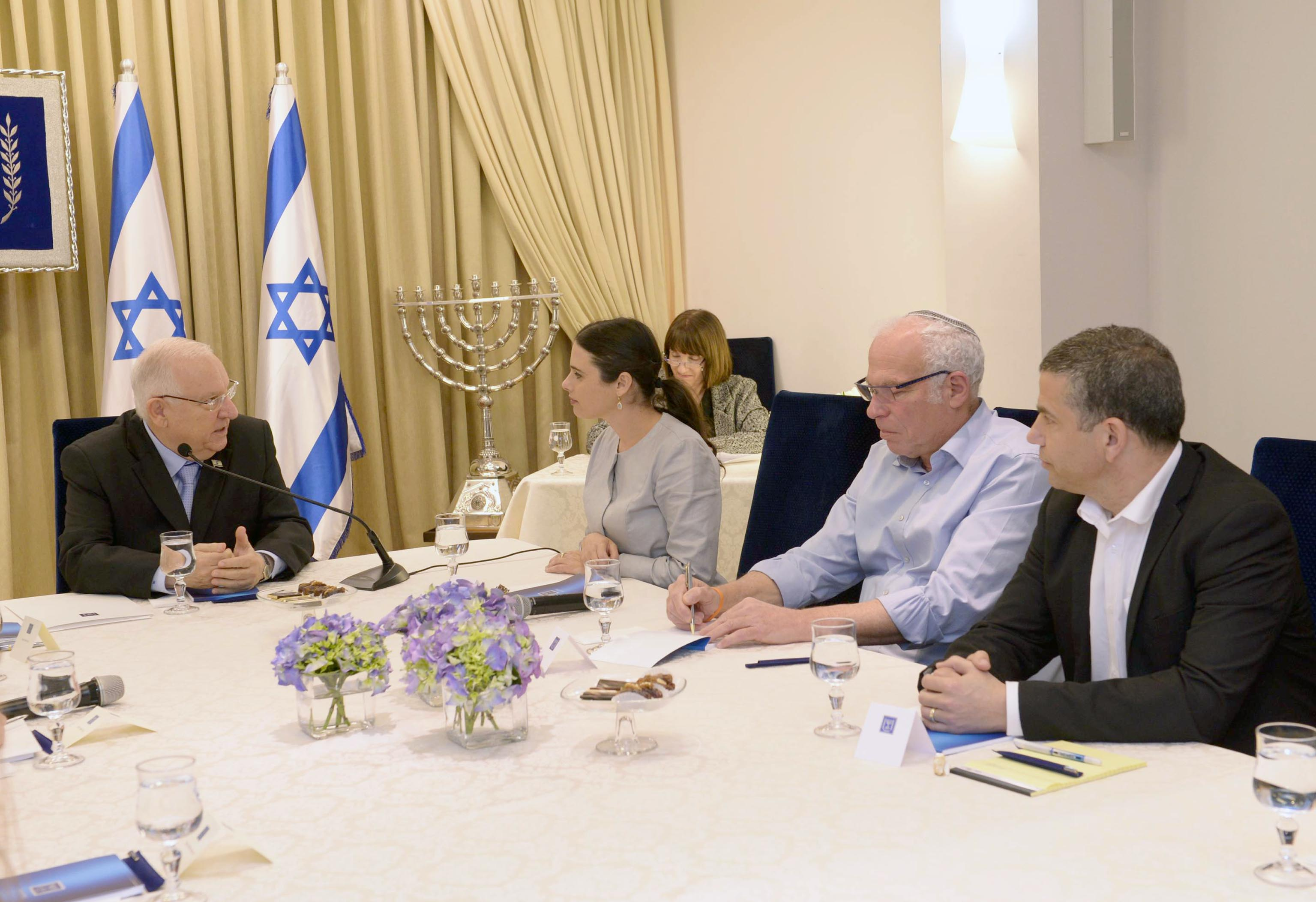 Israeli president Reuven Rivlin consult with The Jewish Home party, 2015